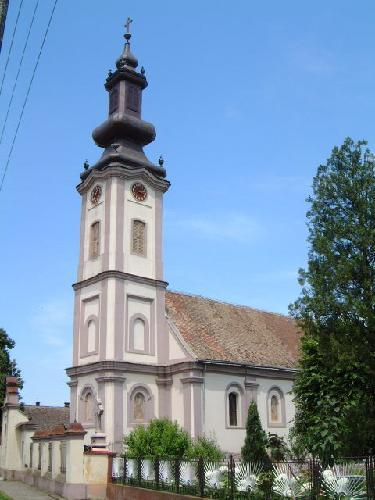 Kuzmin orthodox